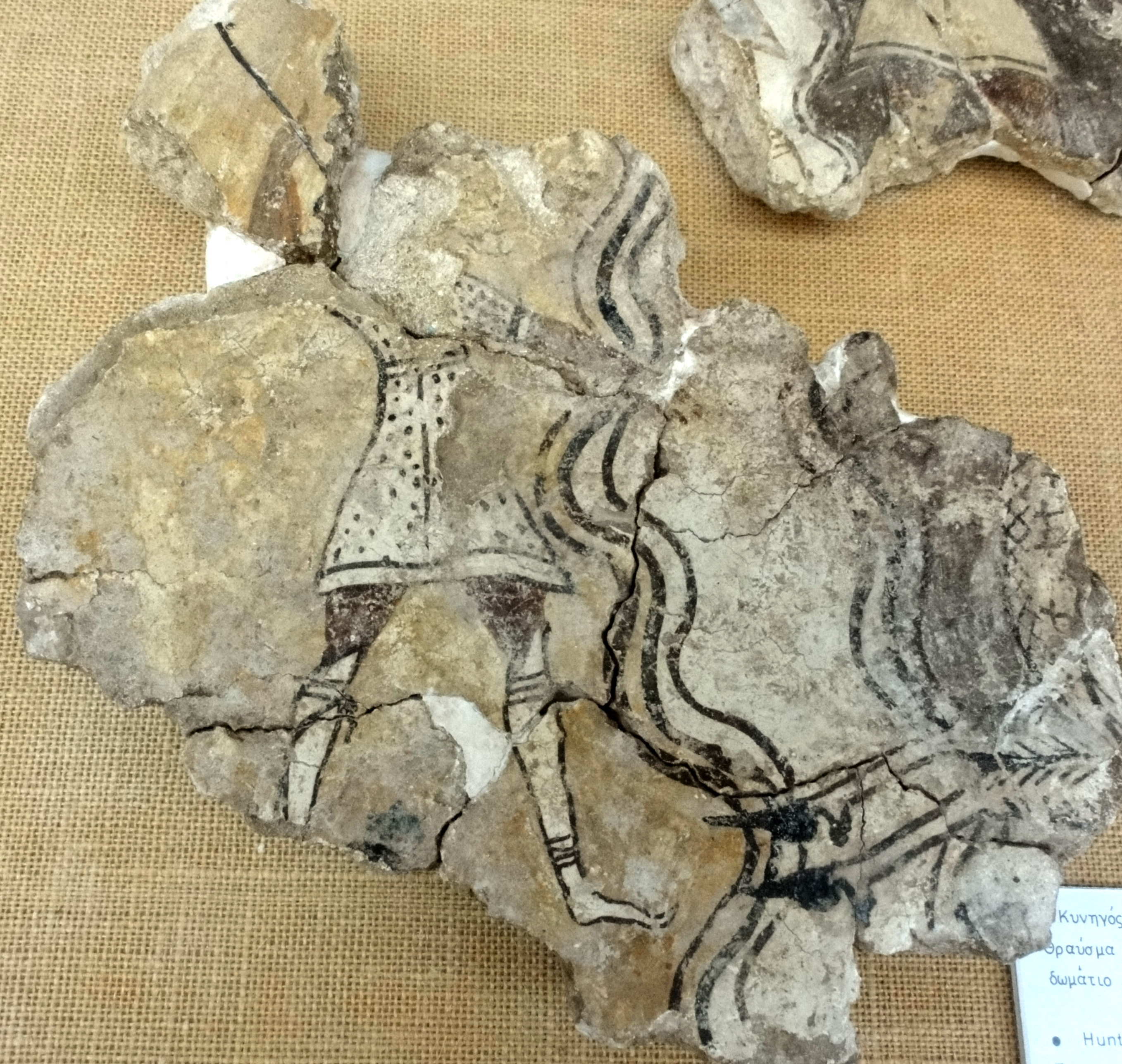 Fragment of wall fresco showing a hunter and stag at the Palace of Nestor. This fragment was part of the upper floor having fallen into room 43. On display at the Chora museum.